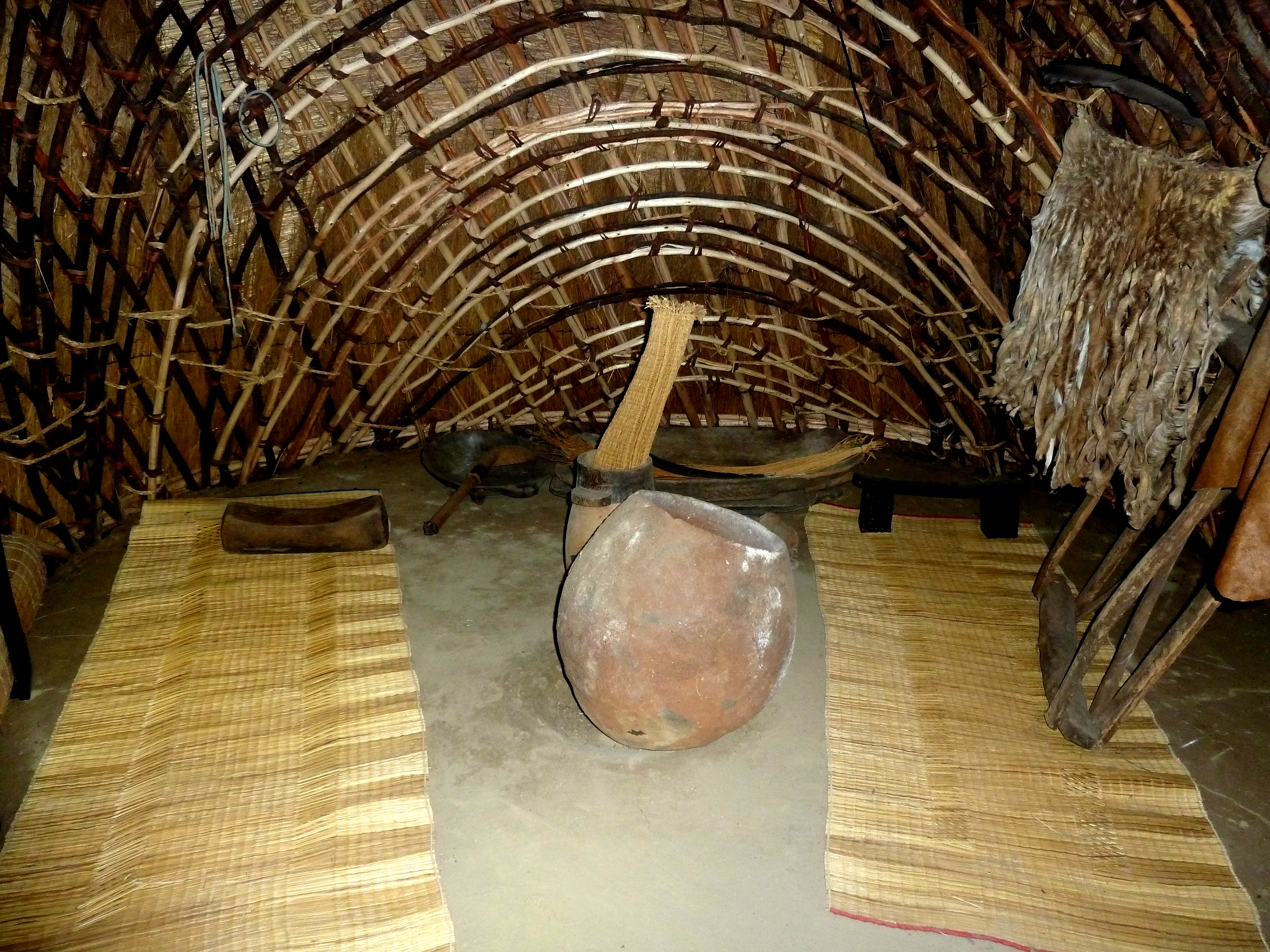 Interior living space of an iQhugwane (beehive hut) in the Mtonjaneni Zulu Historical Museum, at Mthonjaneni, northern KwaZulu-Natal. Two iziGqiki (singular: isiGqiki, wooden head rest) serving as imiQamelo (singular: umQamelo, pillow) are visible on two amaCansi (sleeping mats, singular: iCansi), often made of iNcume (a rush species). Between the mats is an iVovo (beer filter) placed in an oval-shaped iThunga (milk pail, plural: amaThunga) behind the rounded uKhamba (beer pot). On the right a Zulu man's loin and buttock coverings (isiNene & iBeshu) hang from a wooden frame. Tradition dictates that the woman would sleep on the man's right, i.e. the left side of the photo, and the man may place an invite stick outside the entrance, when she is welcome to enter.